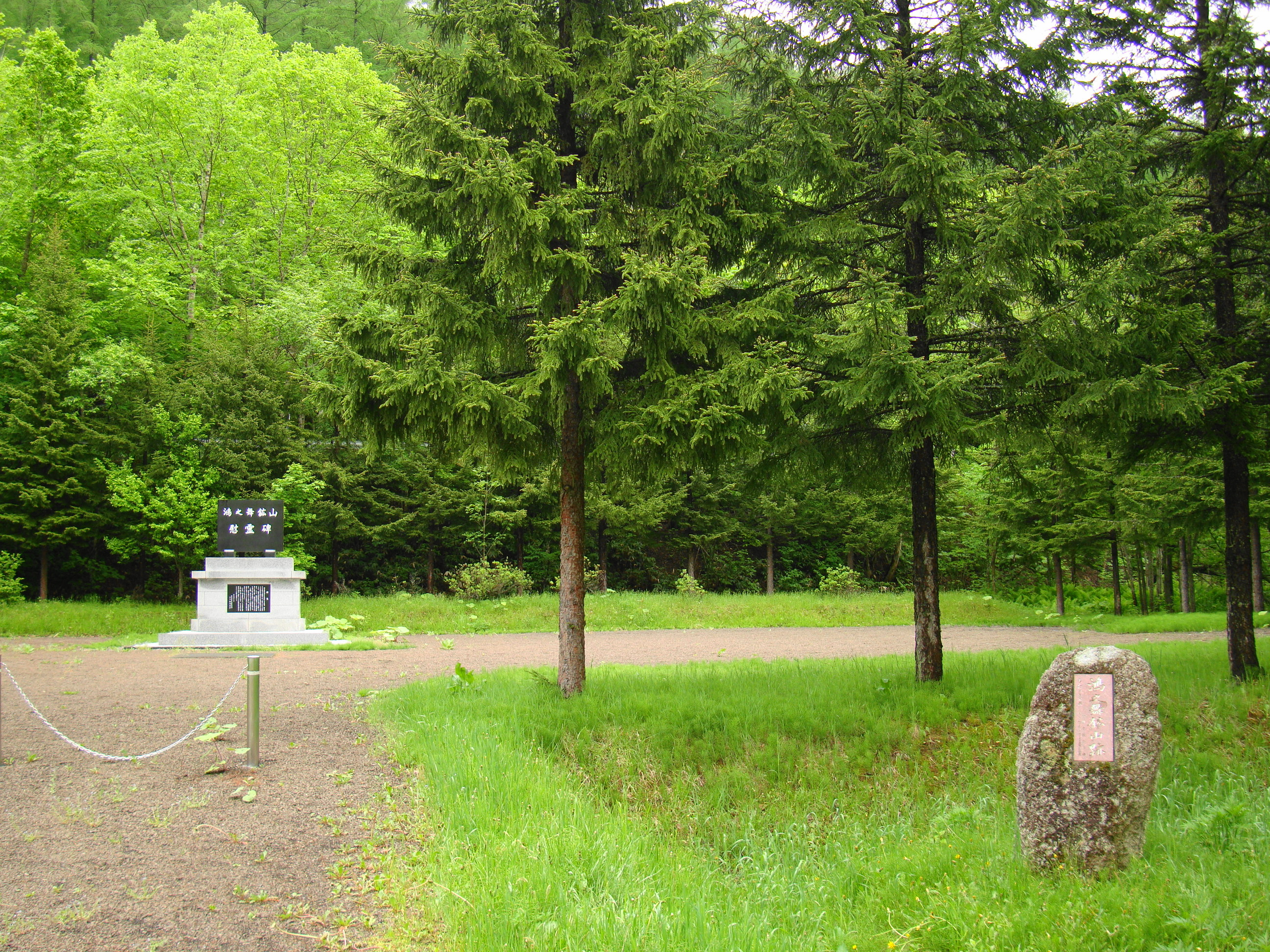 Kōnomai, Monbetsu City, Hokkaidō, Japan.